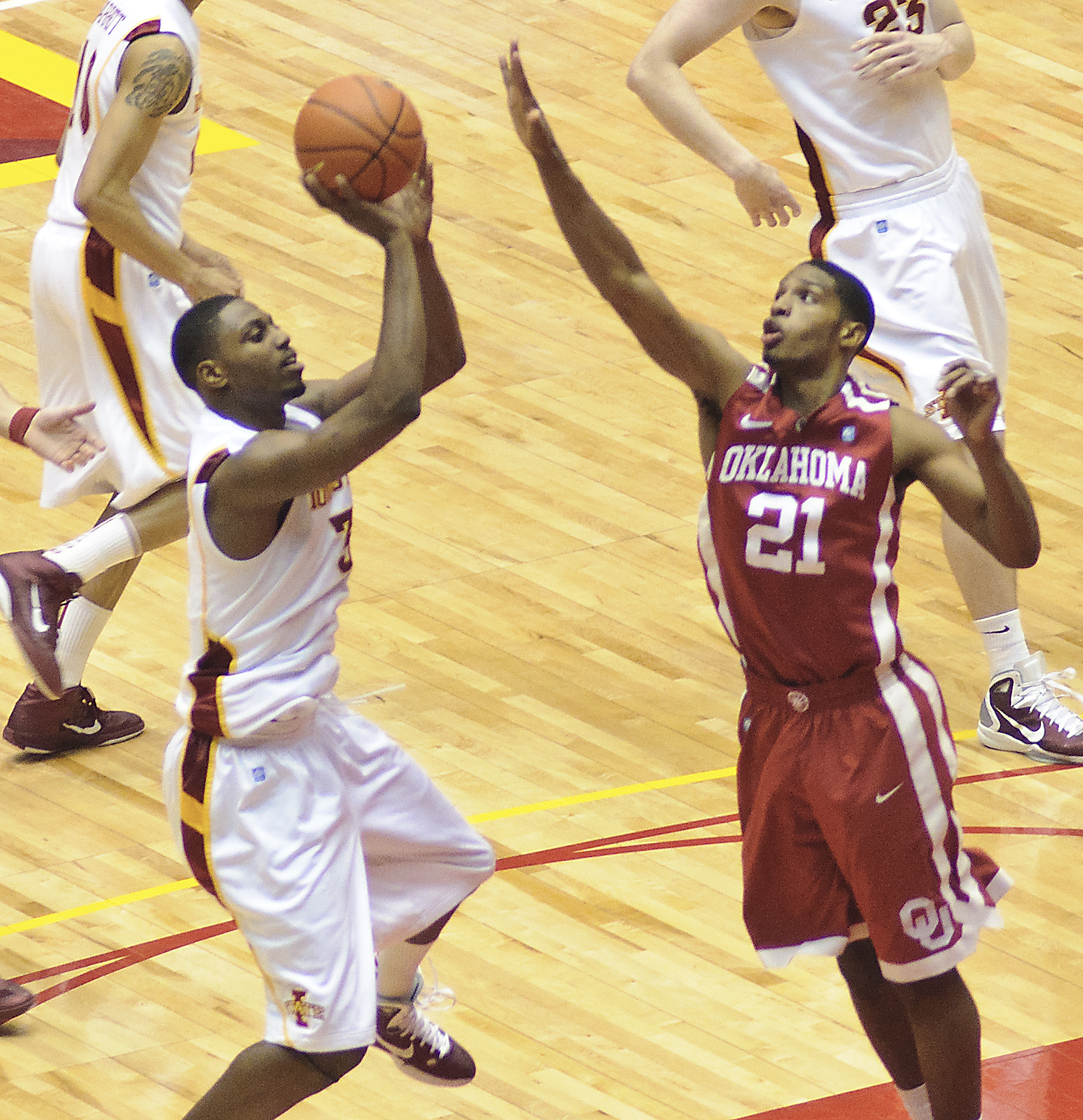 Oklahoma's Cameron Clark attempts to block a shot by Iowa State's Melvin Ejim in Hilton Coliseum on January 29, 2011.